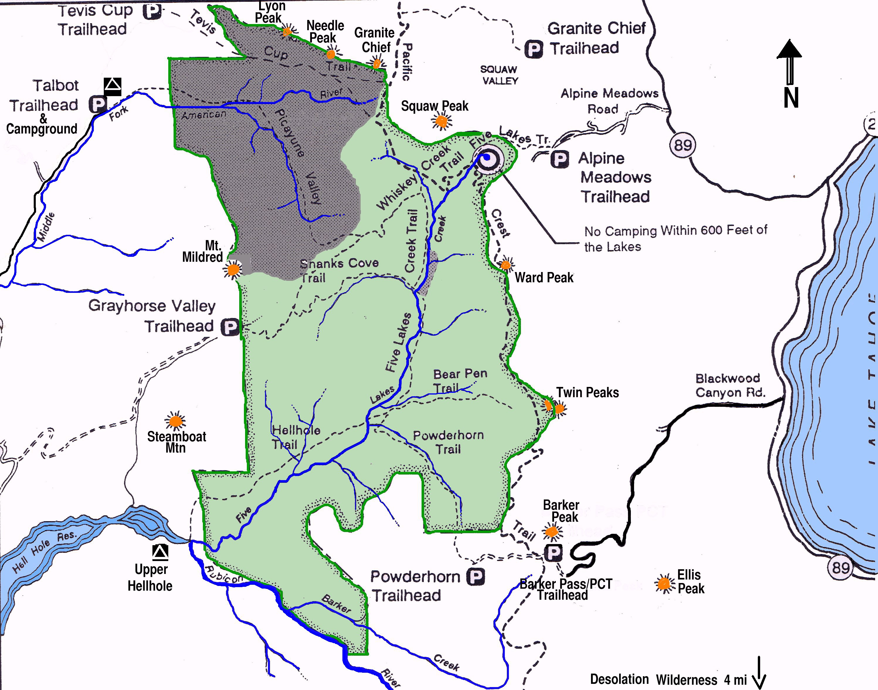 Information packet from Tahoe National forest ranger station kiosk. Map of Granite Chief Wilderness